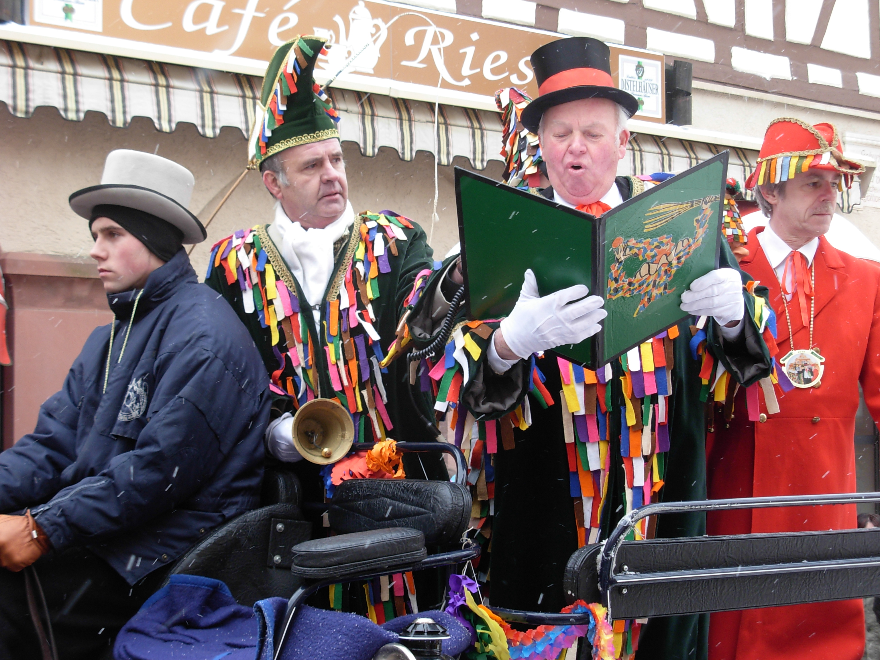 Announcing the carnival in Buchen (Odenwald), Germany